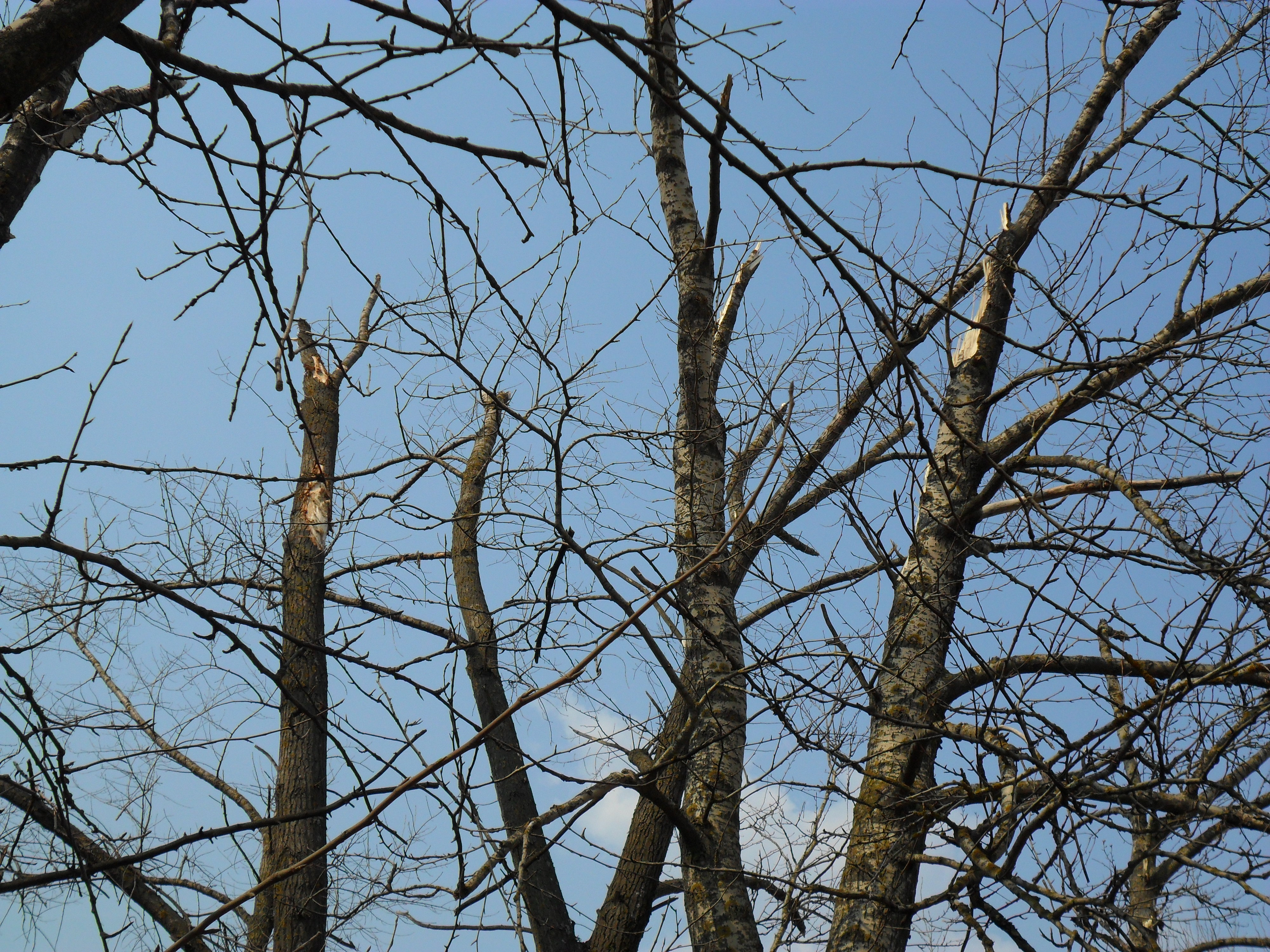 Broken trees from the area of the 2010 Polish Air Force Tu-154 crash, near Smolensk, Russia.